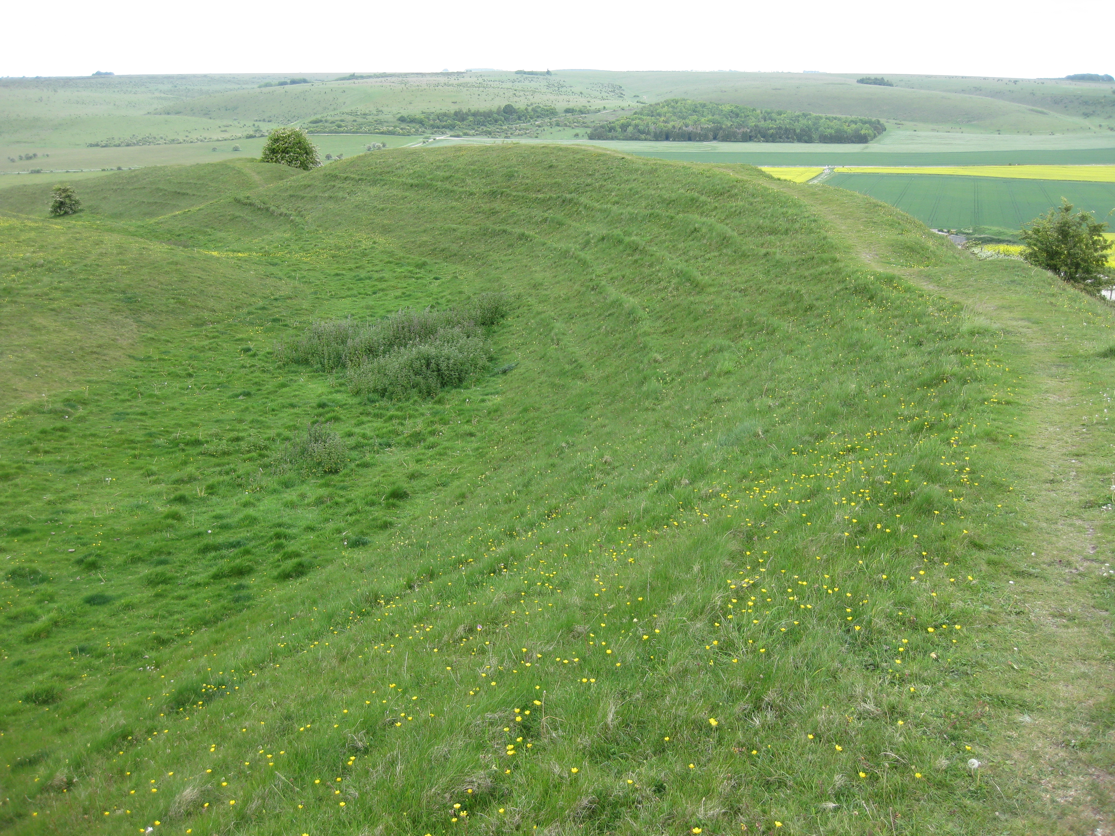 Detail of earthworks at Scratchbury Camp